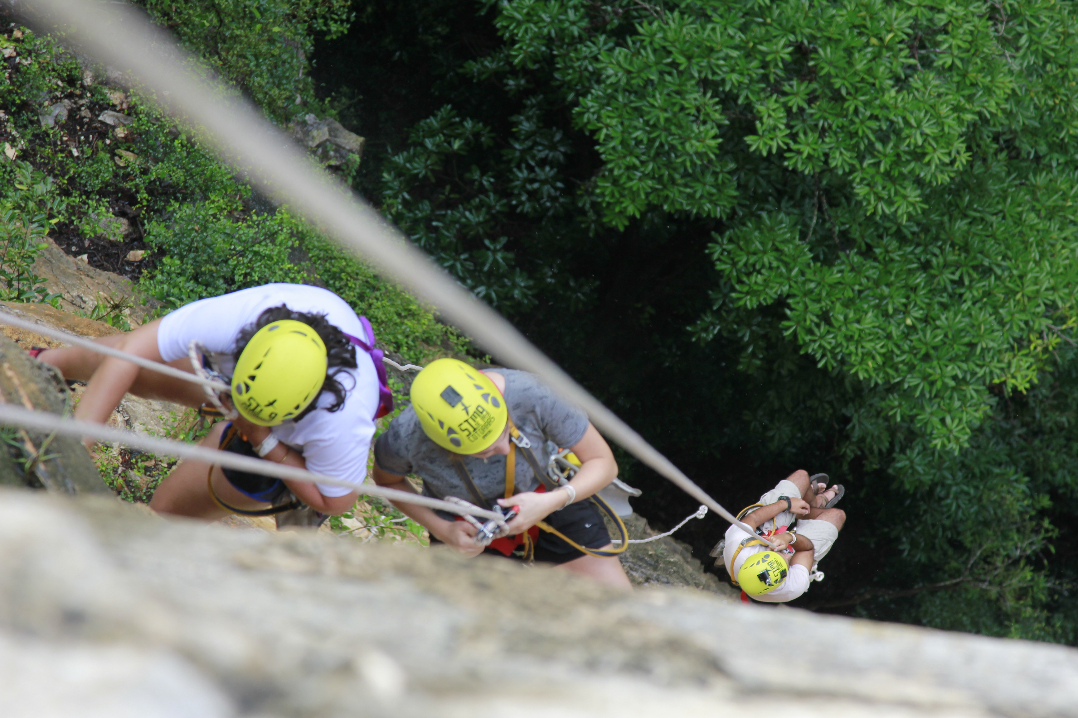 Tourists practicing rappel, descending from Sima de las Cotorras, Ocozocoautla, Chiapas.